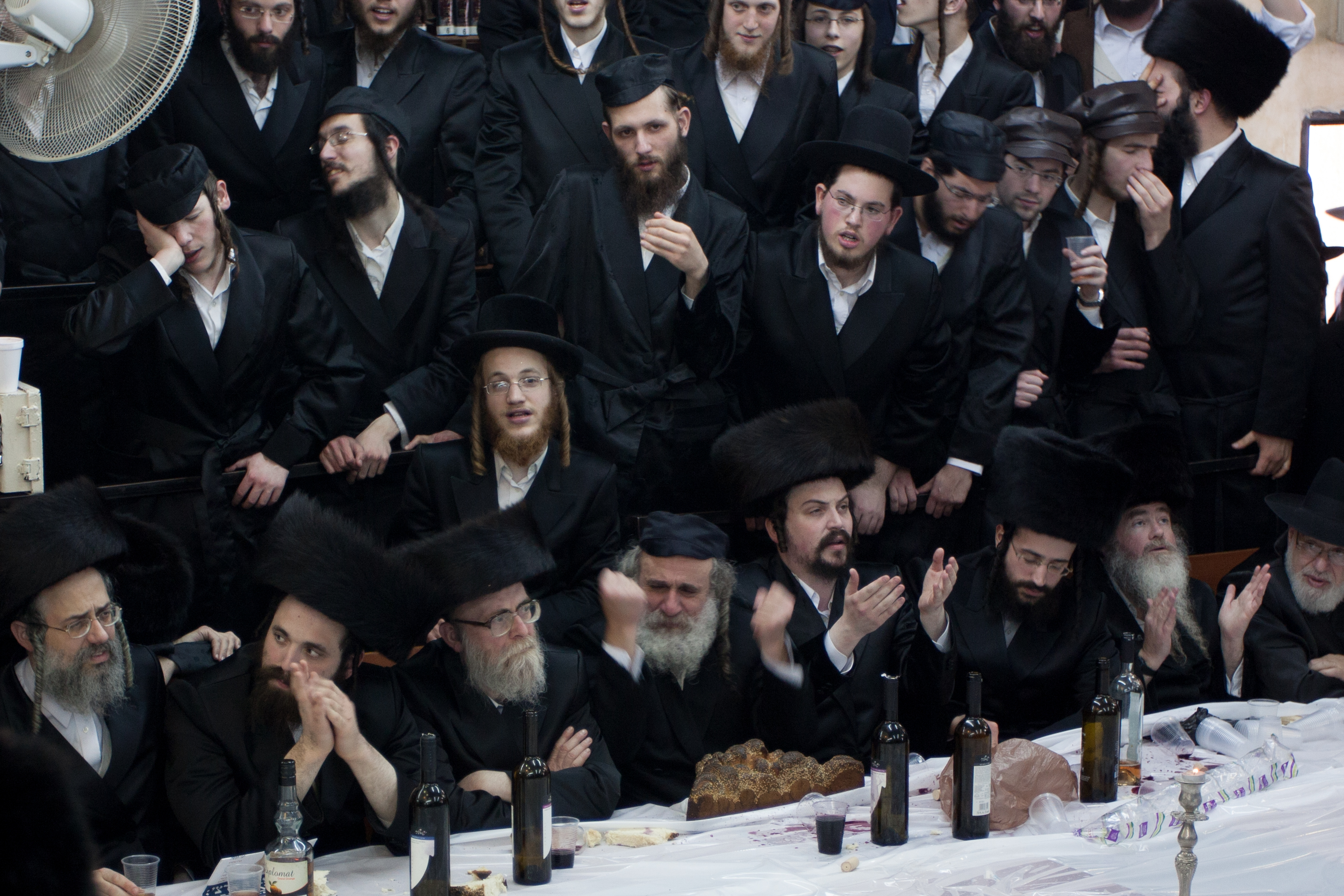 Meeting with the Rebbe